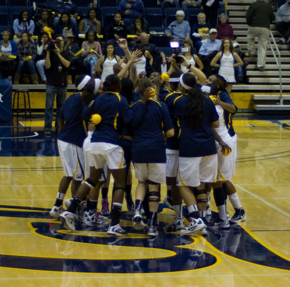 California's women's basketball team huddles up prior to a game against the UCLA Bruins in February 2012.